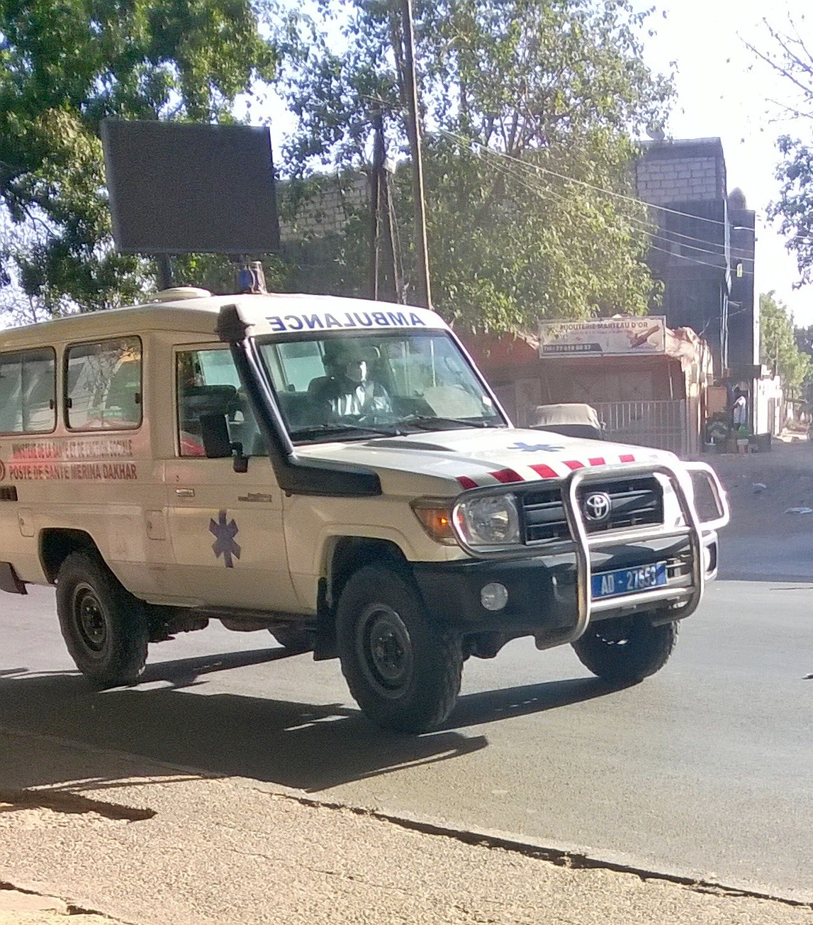 During this period of struggle against COVID-19, ambulances play a determined role in the transport of patients to different hospital premises. Thus the State of Senegal strengthens the logistics of medical cops.